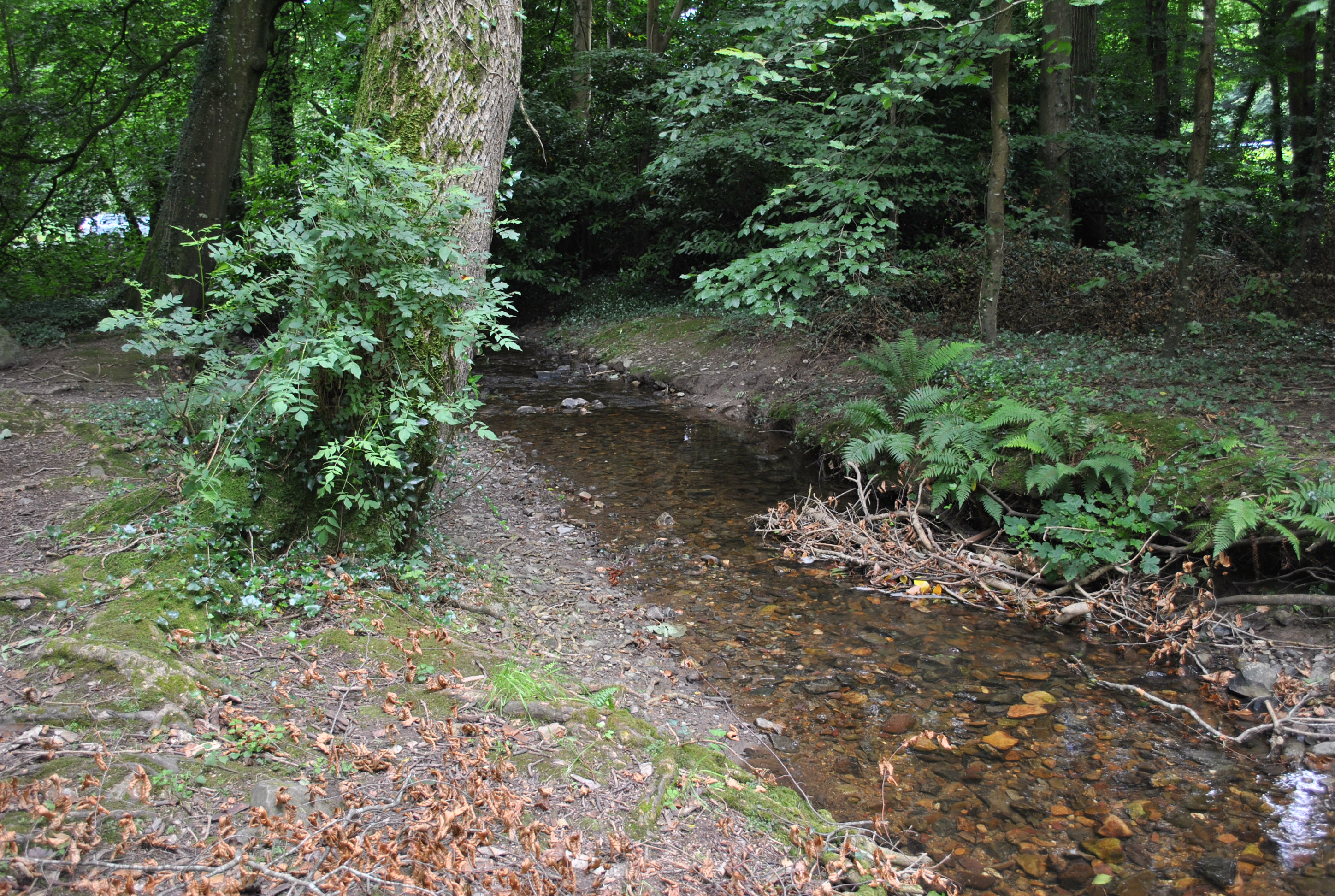 Gold Bearing river